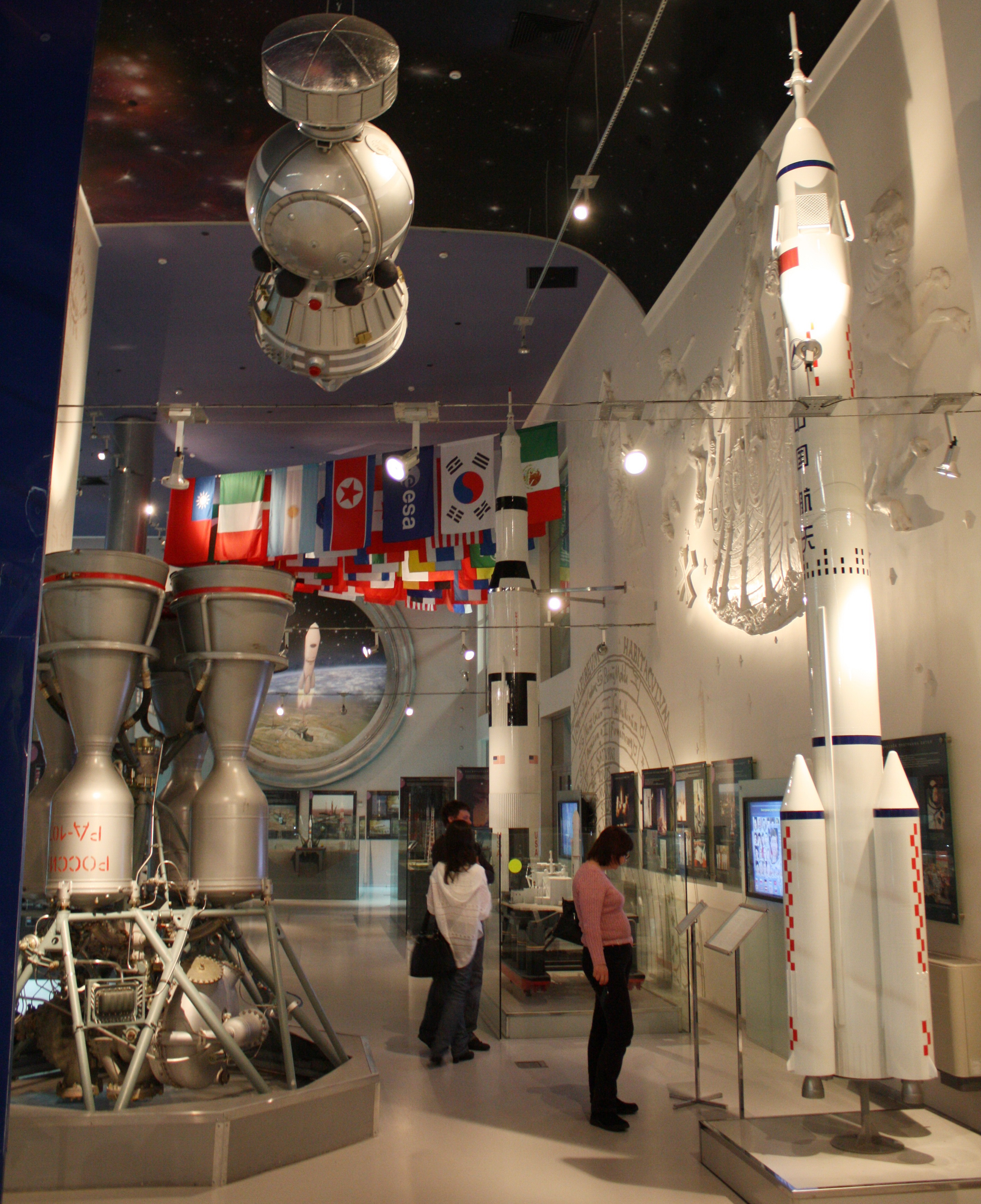 Moscow museum of cosmonautics